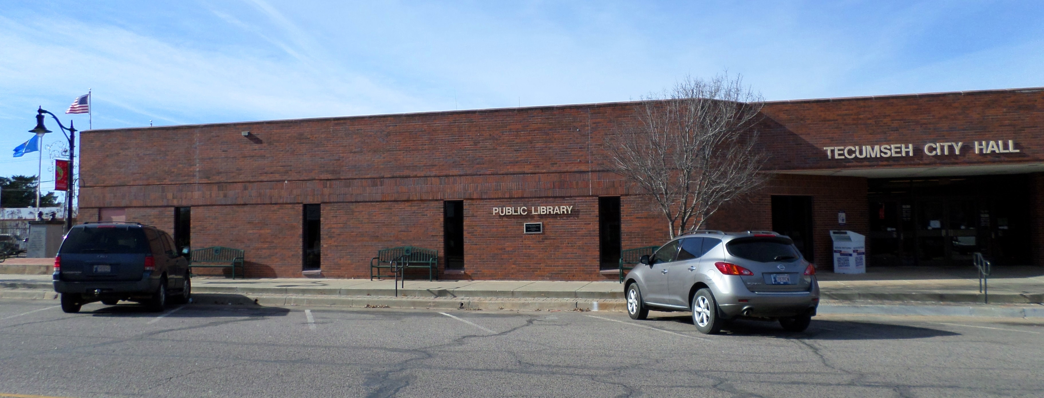 The Tecumseh Public Library, located at 114 N Broadway St, Tecumseh, OK.